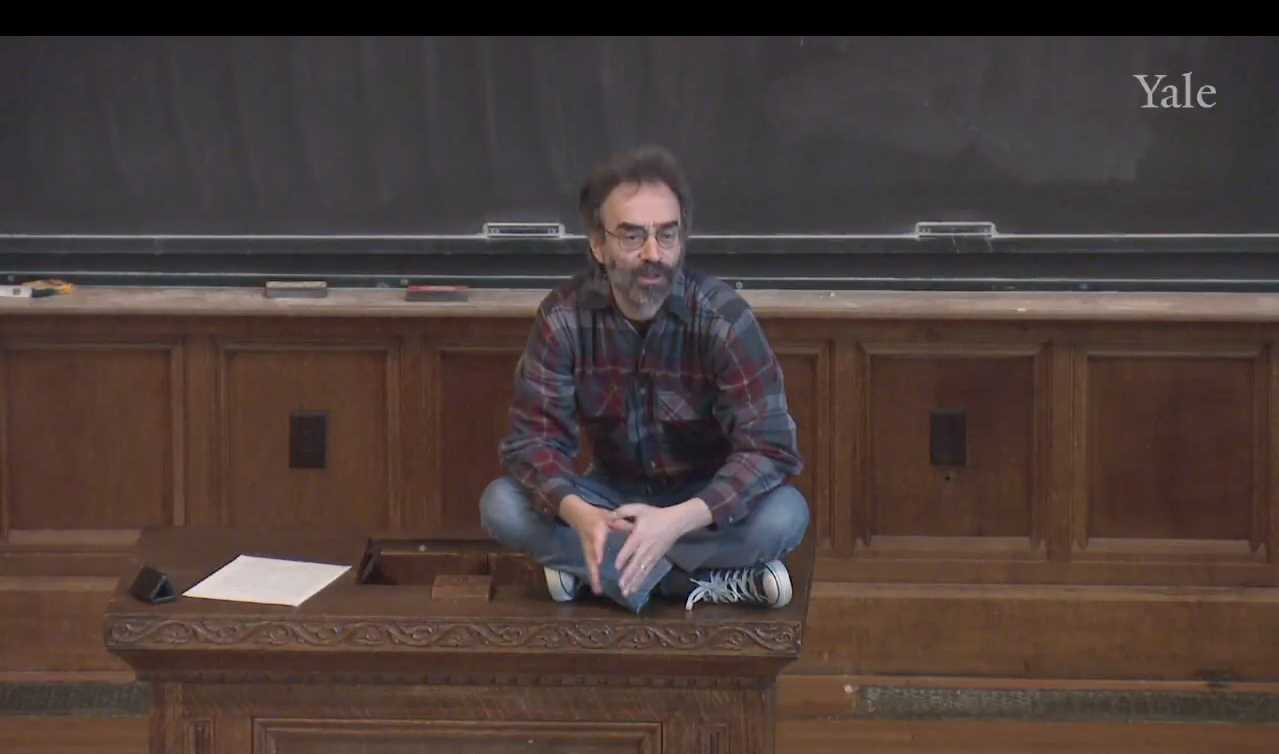 Shelly Kagan giving a lecture at Yale University.